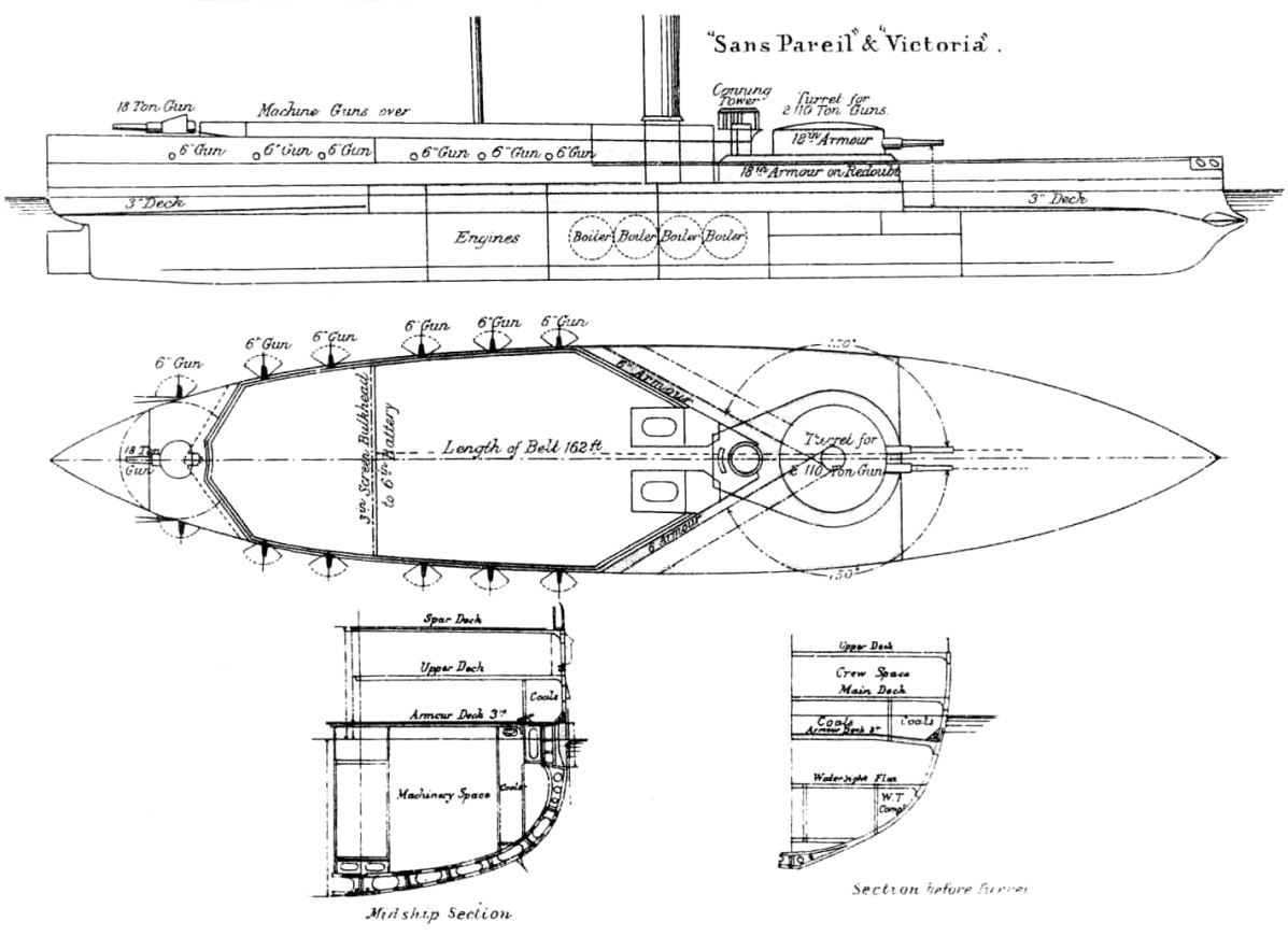 Starboard elevation, deck plan and sectional views of British Victoria class battleships.